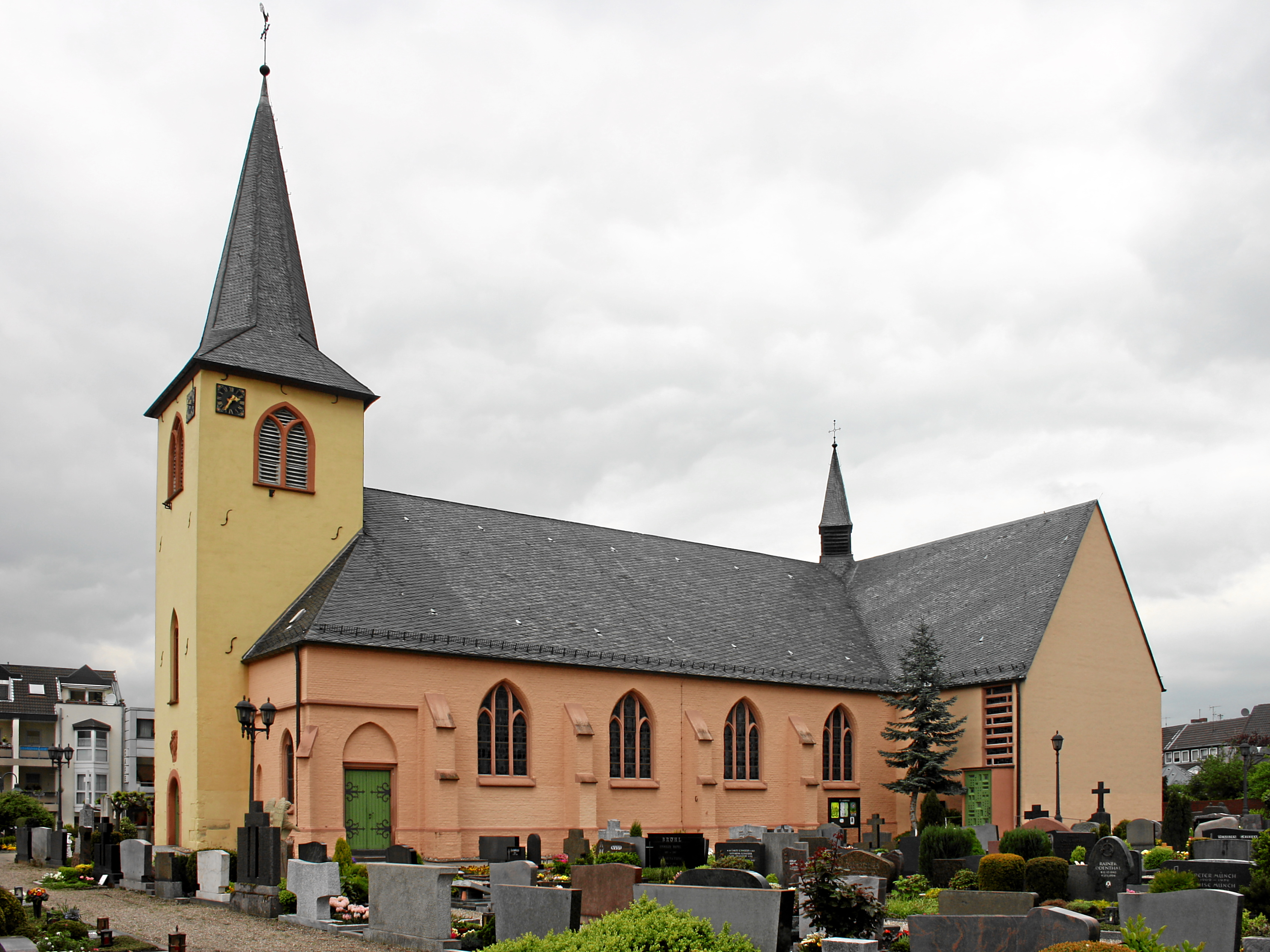 Niederkassel-Mondorf, Germany. Roman-catholic church Saint Laurence, exterior view from South-West.